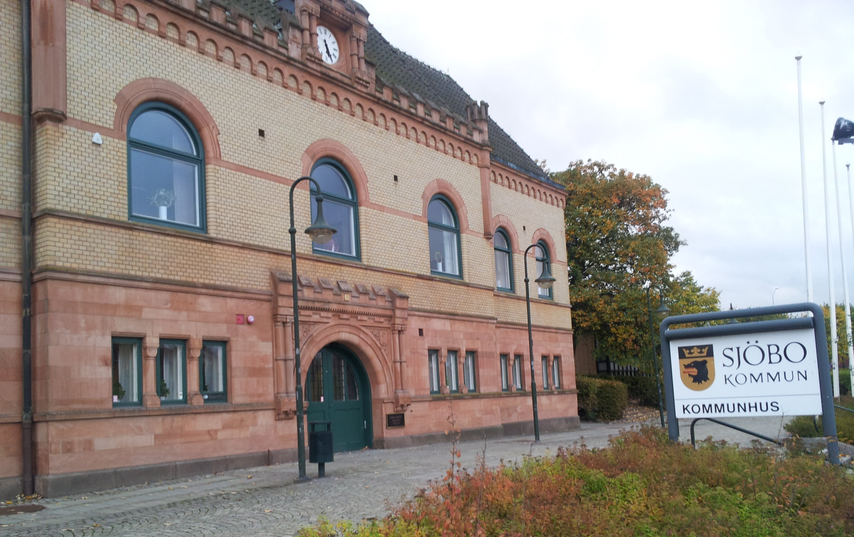 Sjöbo's municipal building